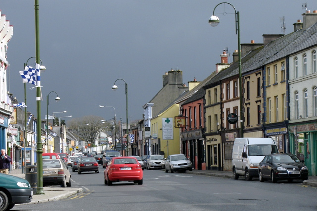 Main Street, Abbeyfeale, Co. Limerick Abbeyfeale was first settled in 1188 when Brien O'Brien founded a Cistercian abbey on the banks of the River Feale. Virtually no trace remains of the abbey, the only identifiable remnants being those used in the construction of the Roman Catholic church.